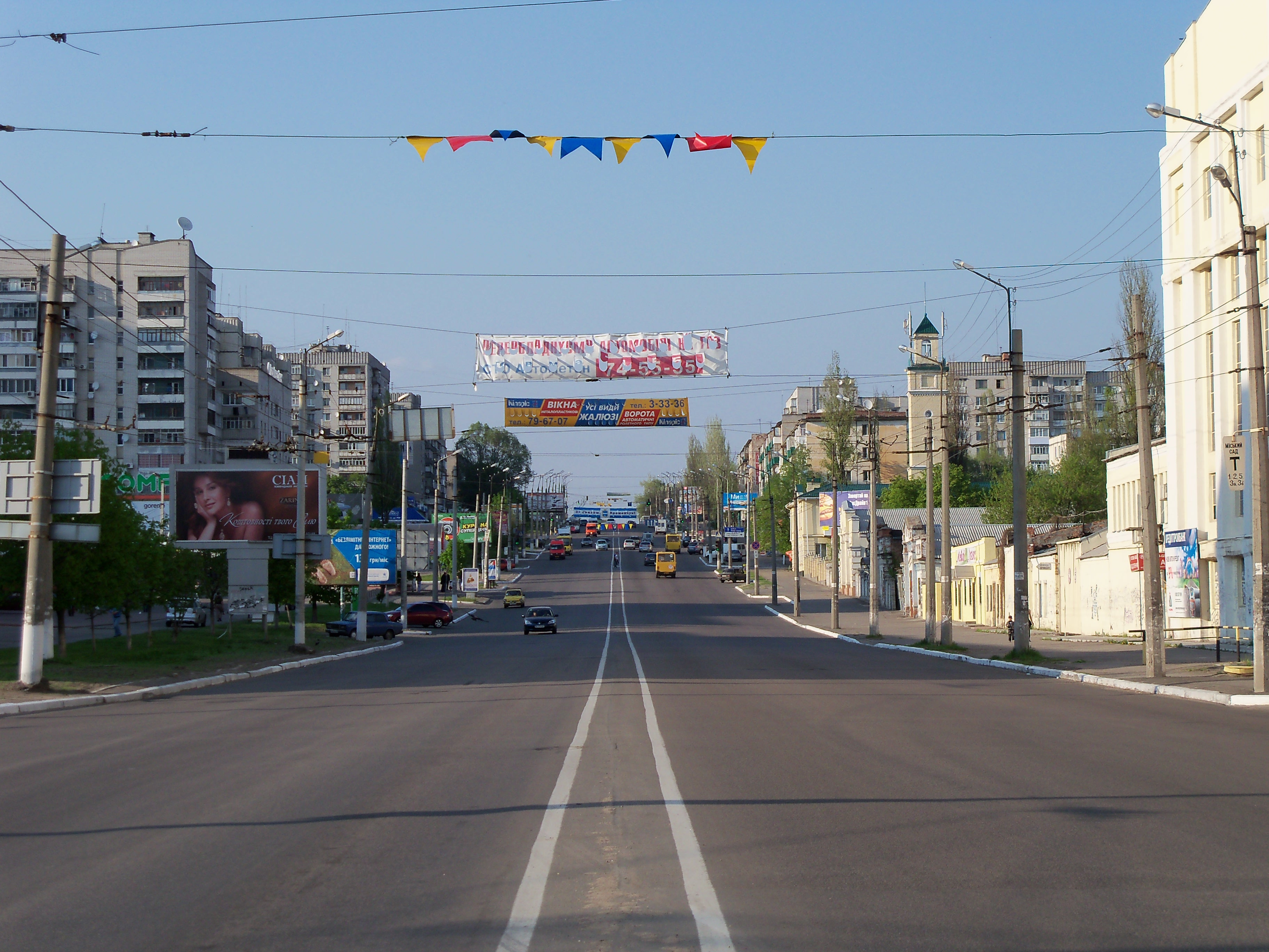 60 Rokiv Zhovtnya street in Kremenchuk